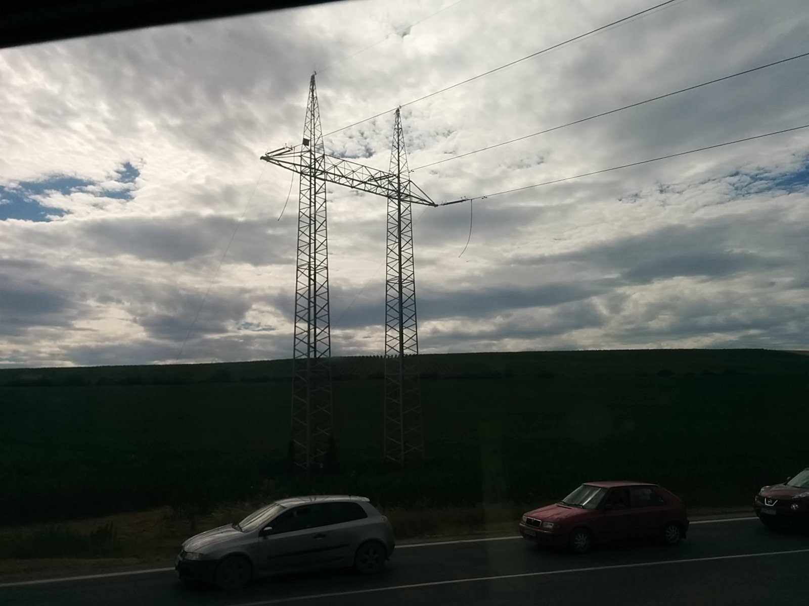 Decomissioned line V274 of Slovenská elektrizačná prenosová sústava, 220 kV voltage, near Ludanice, Slovakia in July 2019.